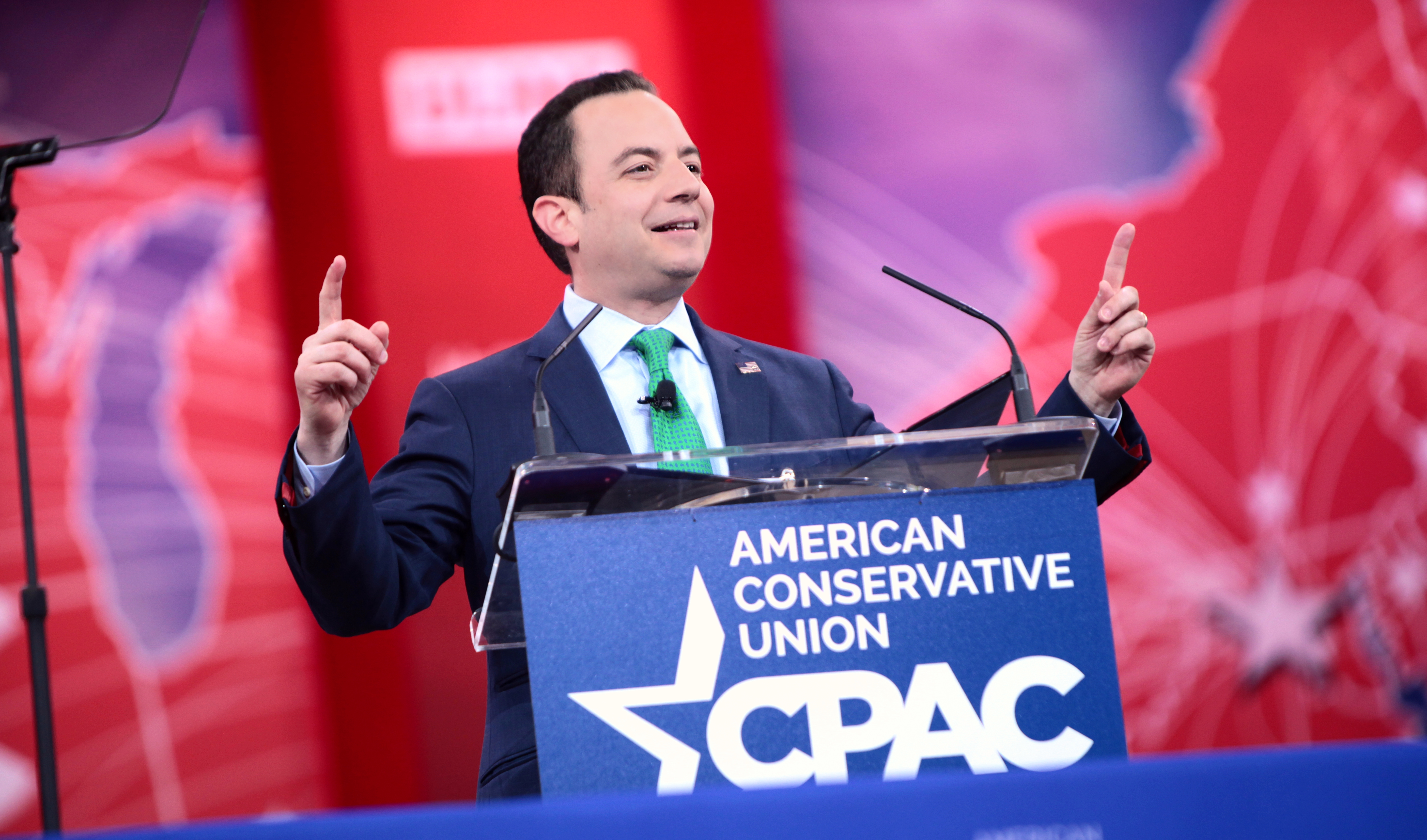 In National Harbor, Maryland